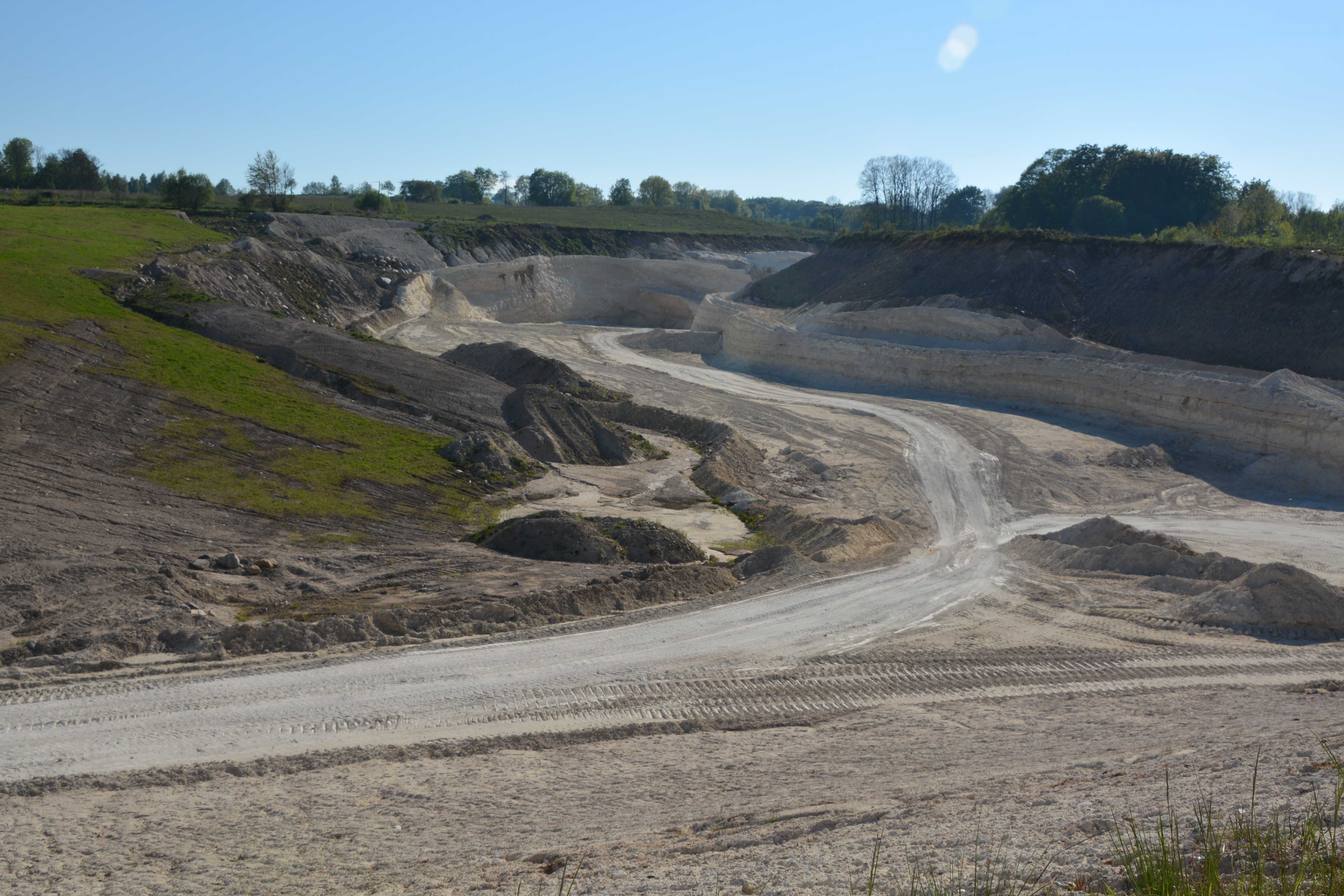 Ignaberga kalkbrott